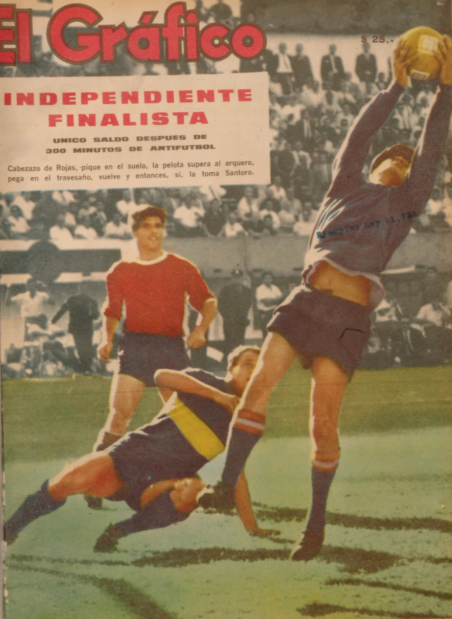 Boca Jrs vs Independiente, Pepé Santoro catching the ball.